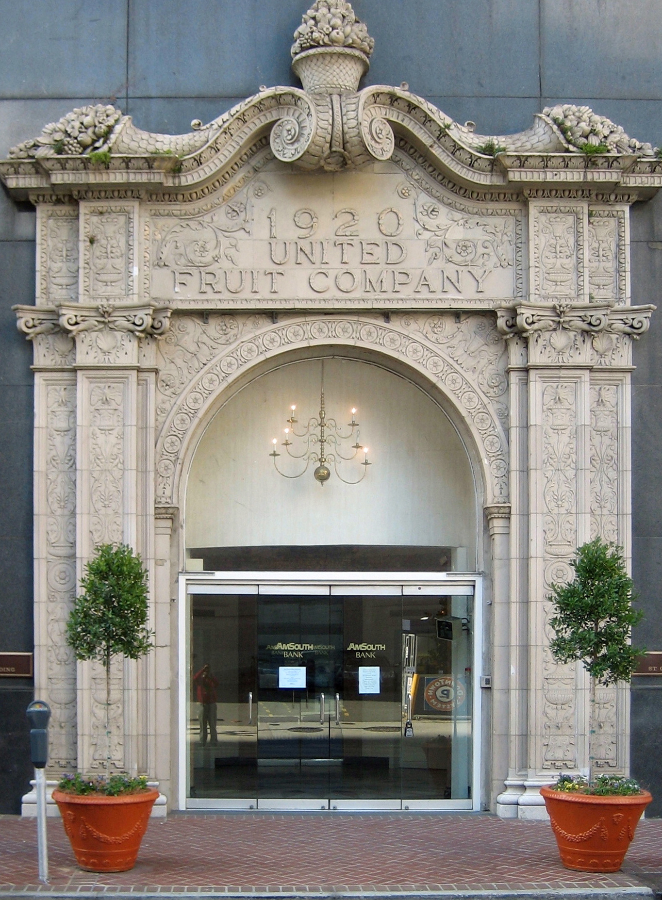 Entrance to old United Fruit Company building, St. Charles Avenue, New Orleans. Now houses a bank.